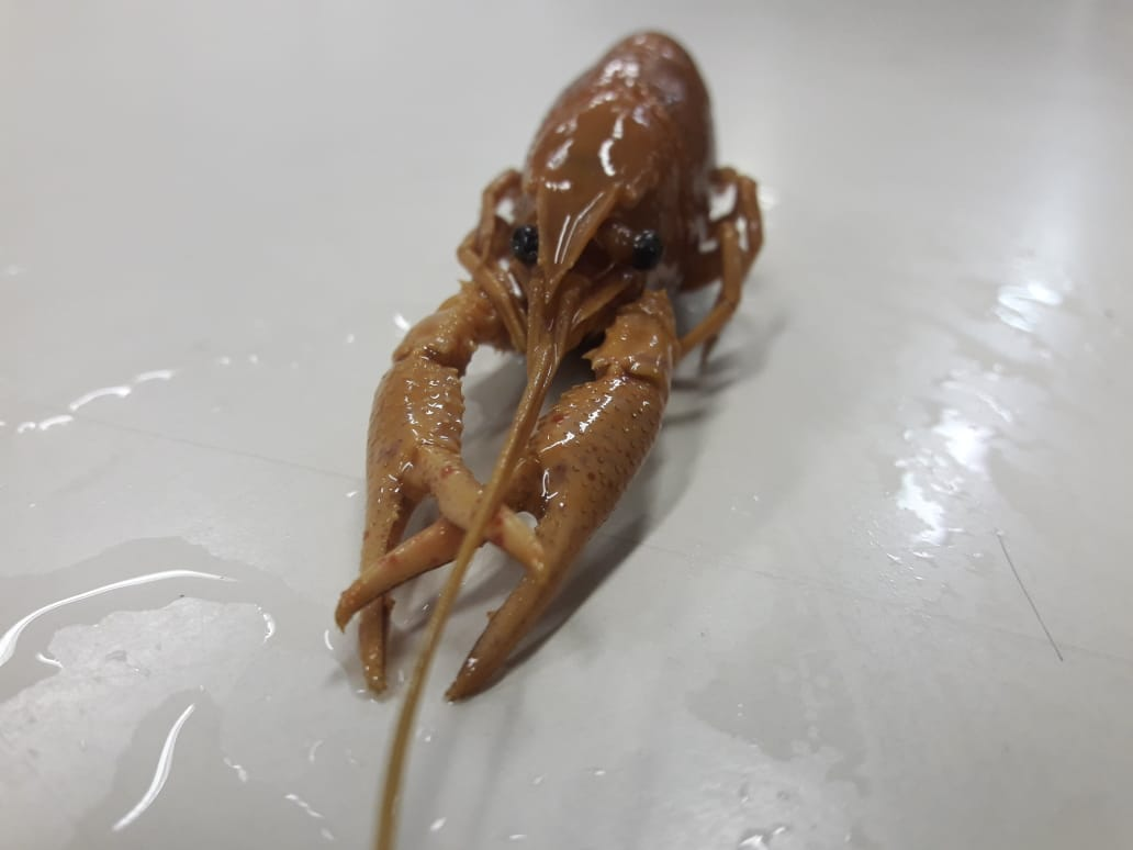 A imagem apresenta um lagostim de água doce da classe Malacostraca e ordem decapoda em vista frontal. Foto tirada no laboratório de microscopia da universidade de São Pauo. Este animal é um crustáceo Pleocyemata, Astacidae.